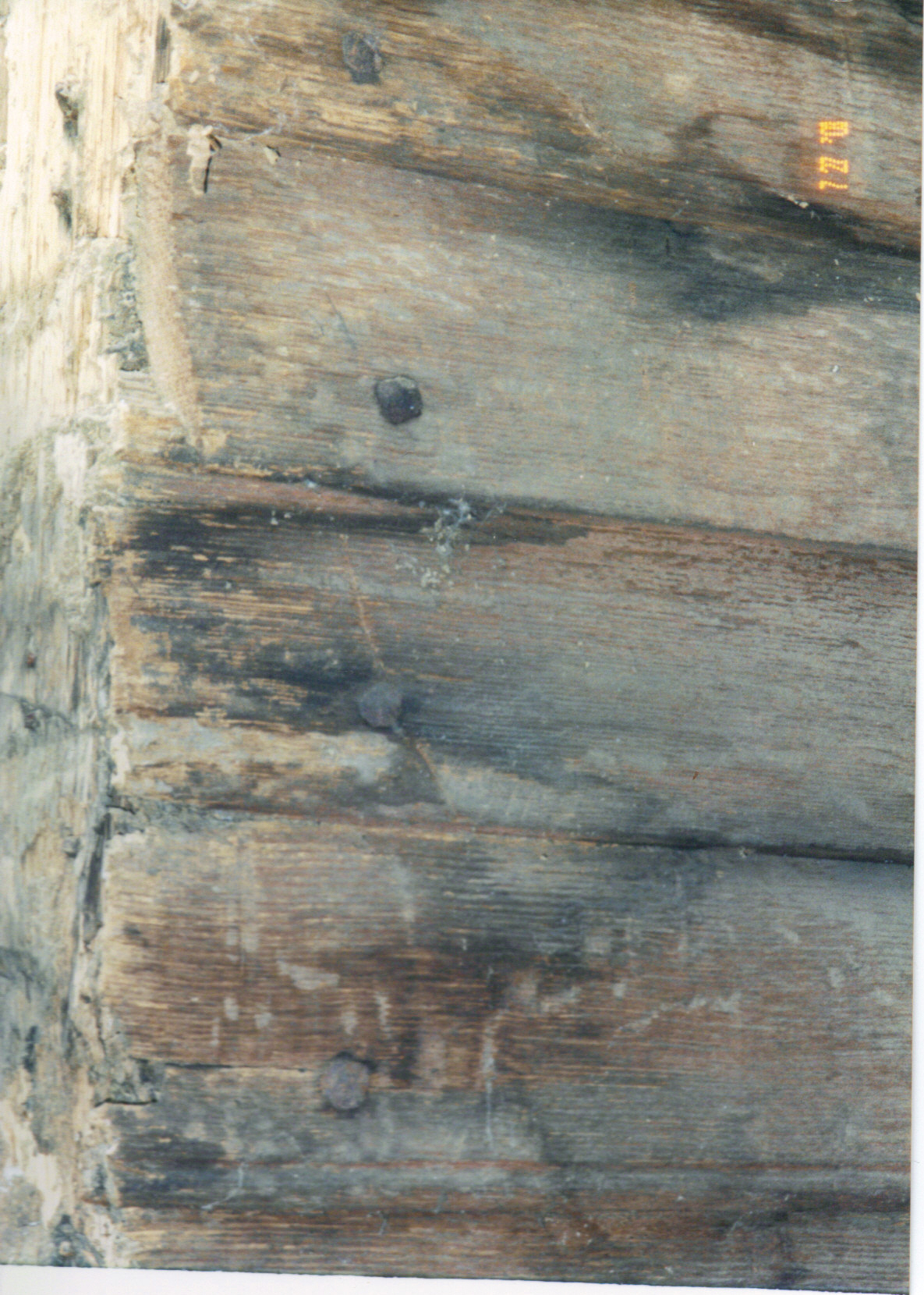 Close-up of original 1683 oak clapboards